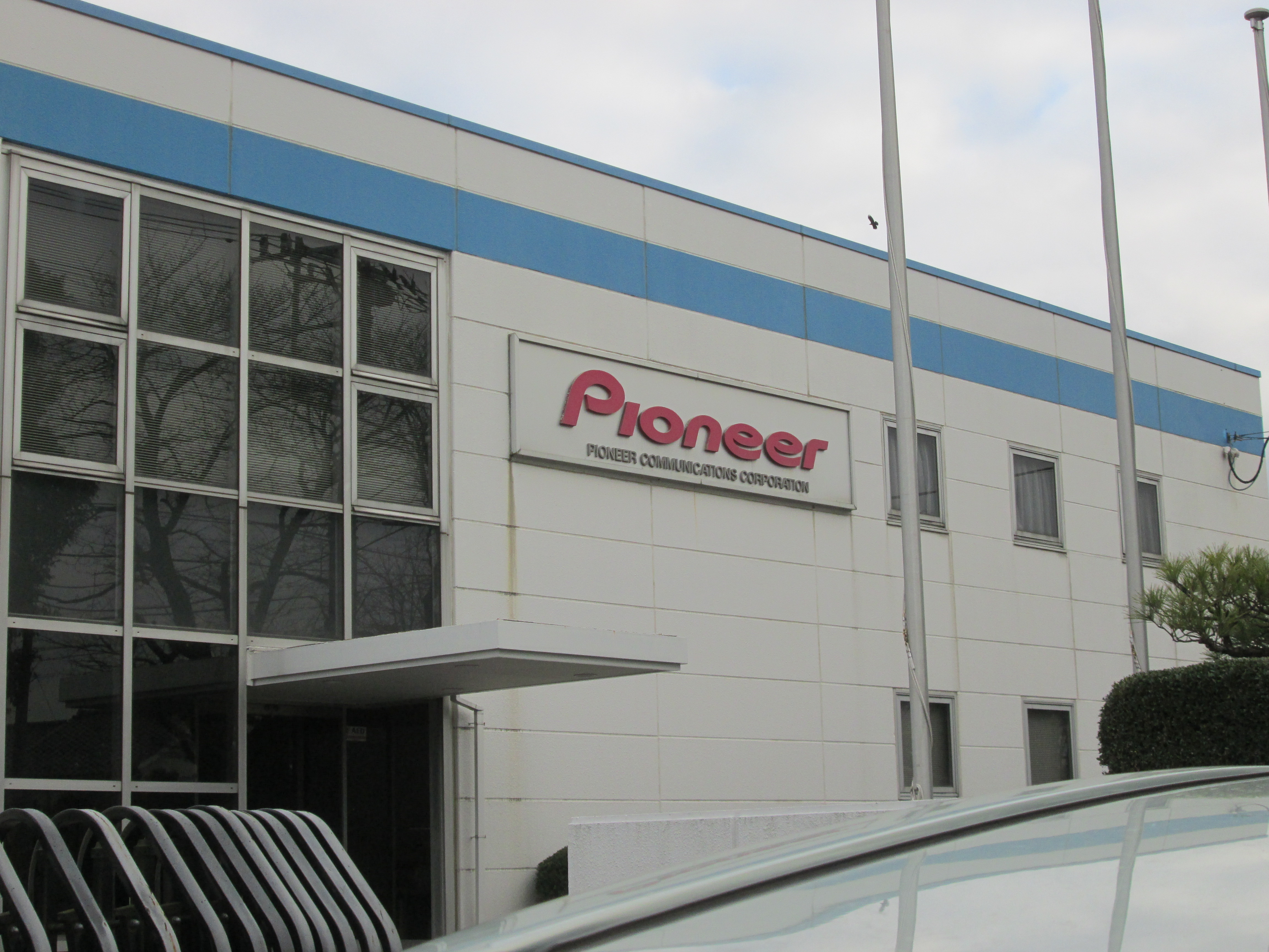 Logo board on the main bldg at the headquarters of Pioneer Communications Corporation